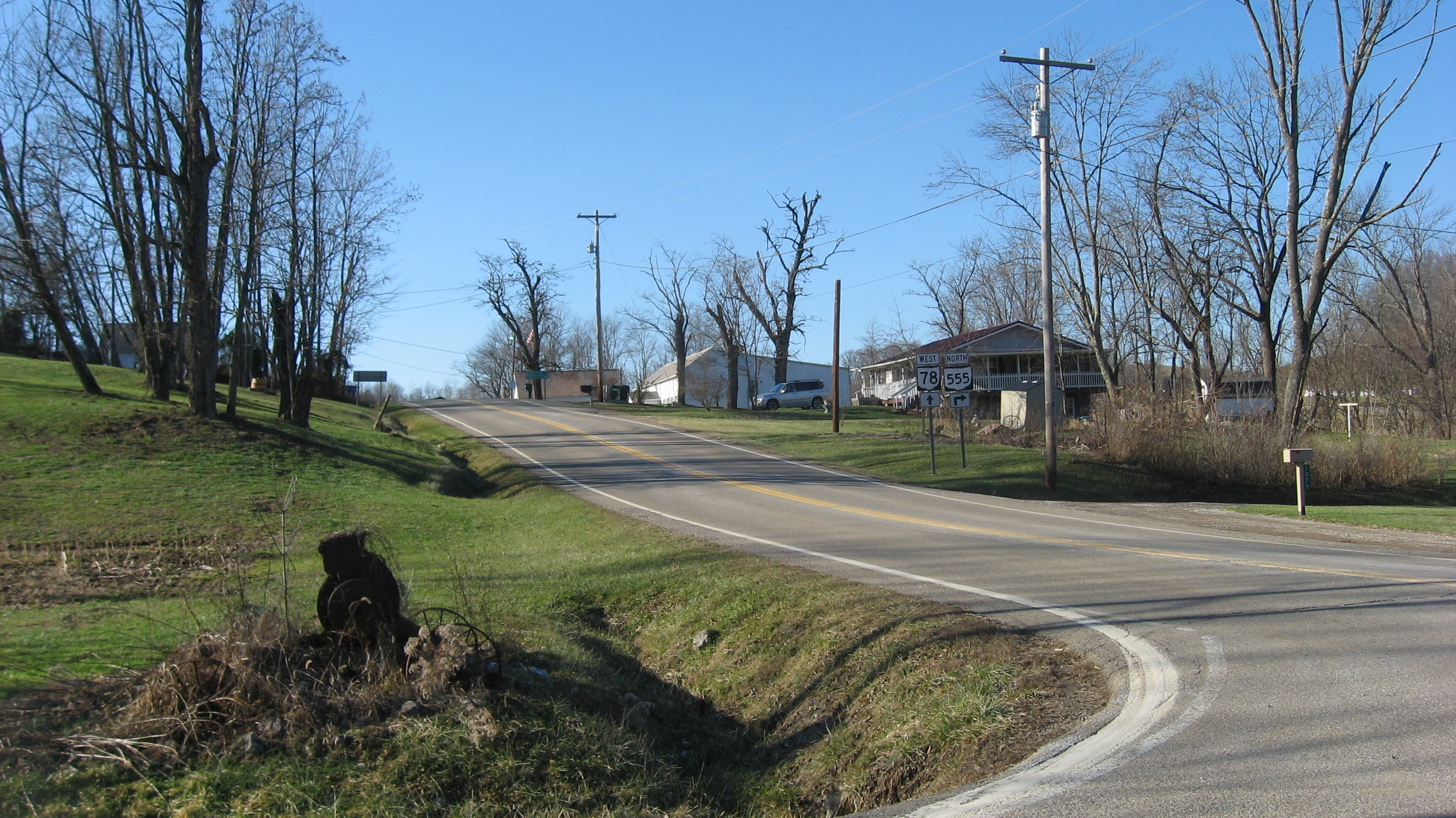 Looking westward along the combined State Routes 78 and 555 at Ringgold, Ohio, United States, seen from State Route 555 at the community's eastern side.